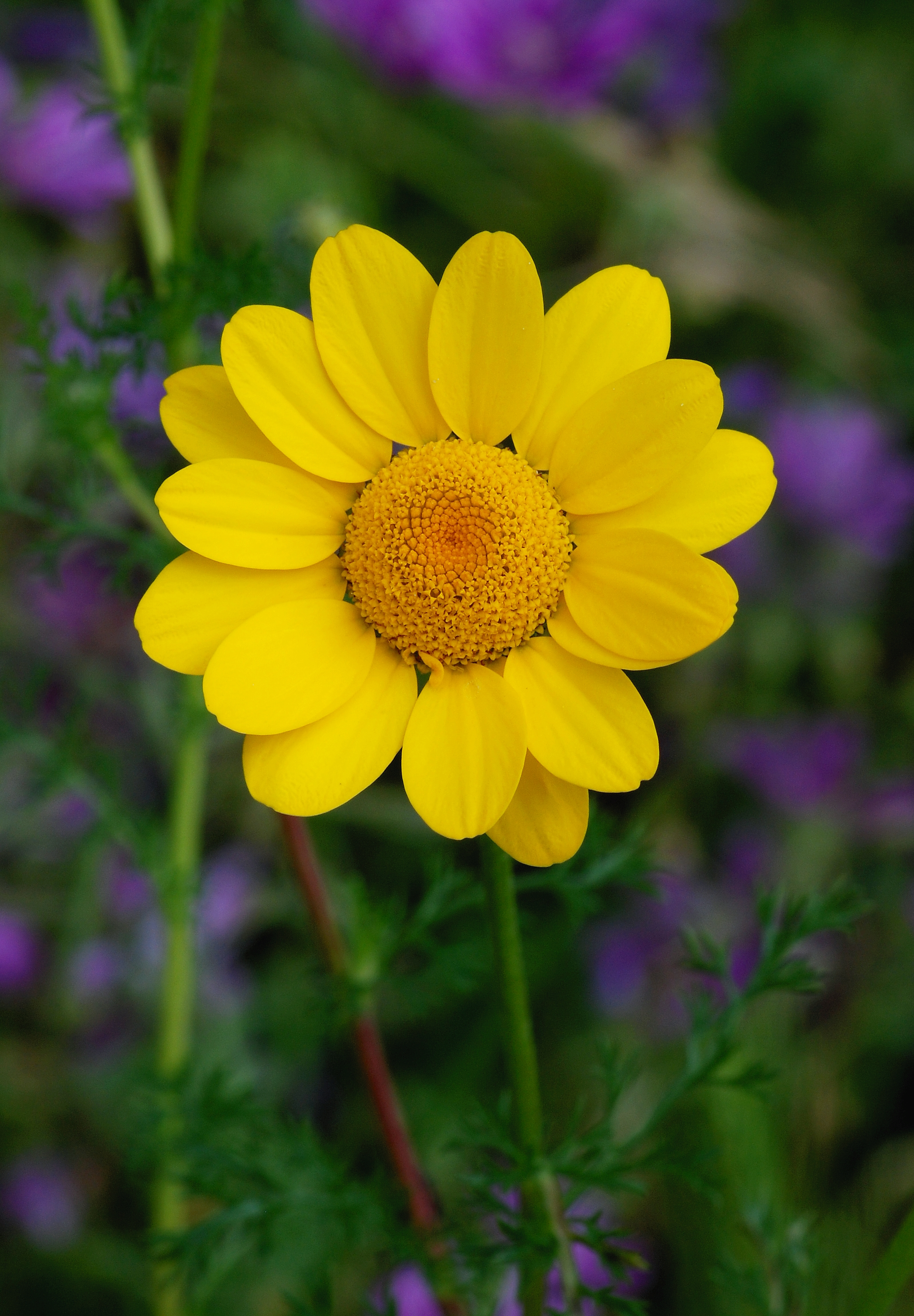 Flower of a Yellow Chamomile (Anthemis tinctoria)